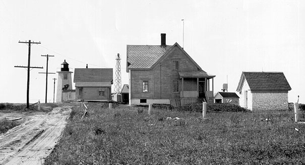 Wings Neck Light, Buzzard's Bay (Barnstable County, Massachusetts) This image or file is a work of a United States Coast Guard service personnel or employee, taken or made as part of that person's official duties. As a work of the U.S. federal government, the image or file is in the public domain (17 U.S.C. § 101 and § 105, USCG main privacy policy and specific privacy policy for its imagery server). Object location41° 40′ 56″ N, 70° 39′ 37″ W